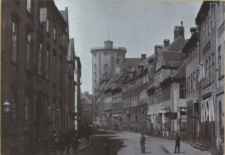 Købmagergade.